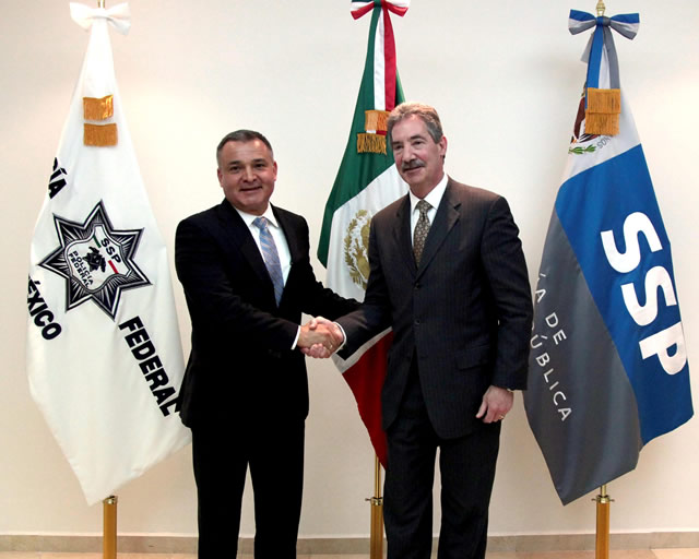 Deputy Attorney General James Cole (right) and Mexican Secretary of Public Security Genaro Garcia Luna